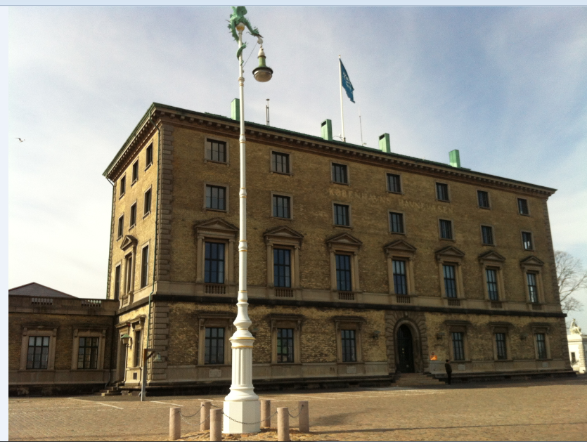 Copenhagen Docks Authority